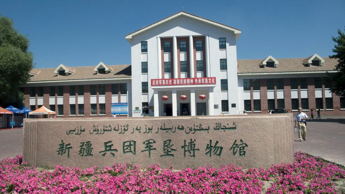 The Xinjiang Military Museum (Chinese S: 新疆兵团军垦博物馆, T: 新疆兵團軍墾博物館, P: Xīn​jiāng Bīng​tuánjūnkěn Bó​wù​guǎn, Uyghur: شىنجاڭ بىڭتۈەن ھەربىيلەر بوز يەر ئۆزلەشتۈرۈش مۇزيى Shinjang Bingtüen Herbiyler Boz Yer Özleshtürüsh Muzyi)